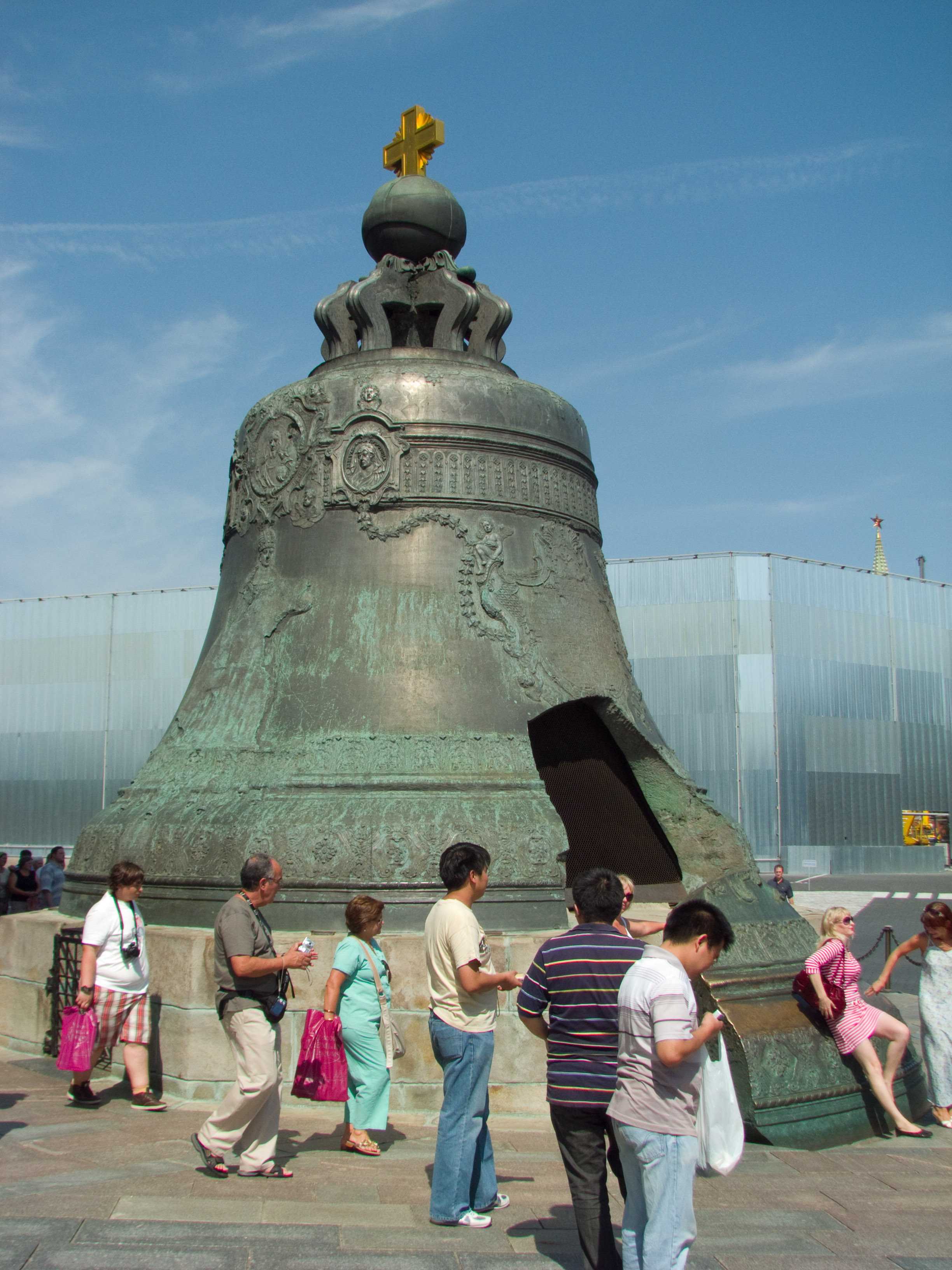 Tsar Bell "The Tsar Bell is the largest of its kind; it has never been rung."